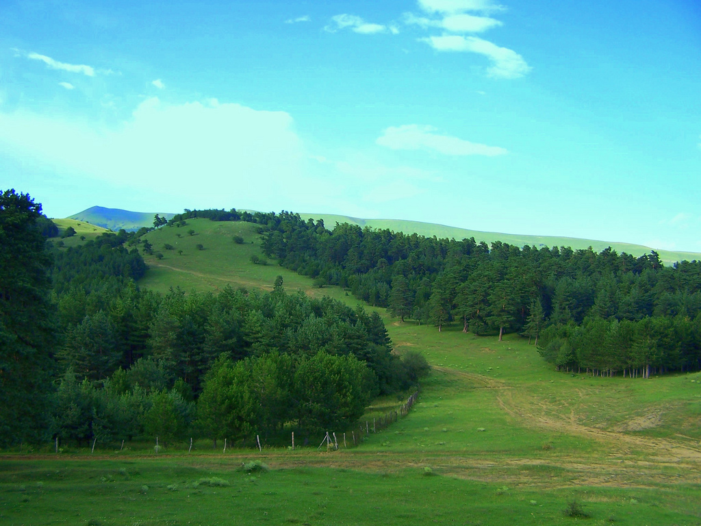 A field in Manglisi, Sakartvelo. Georgia.